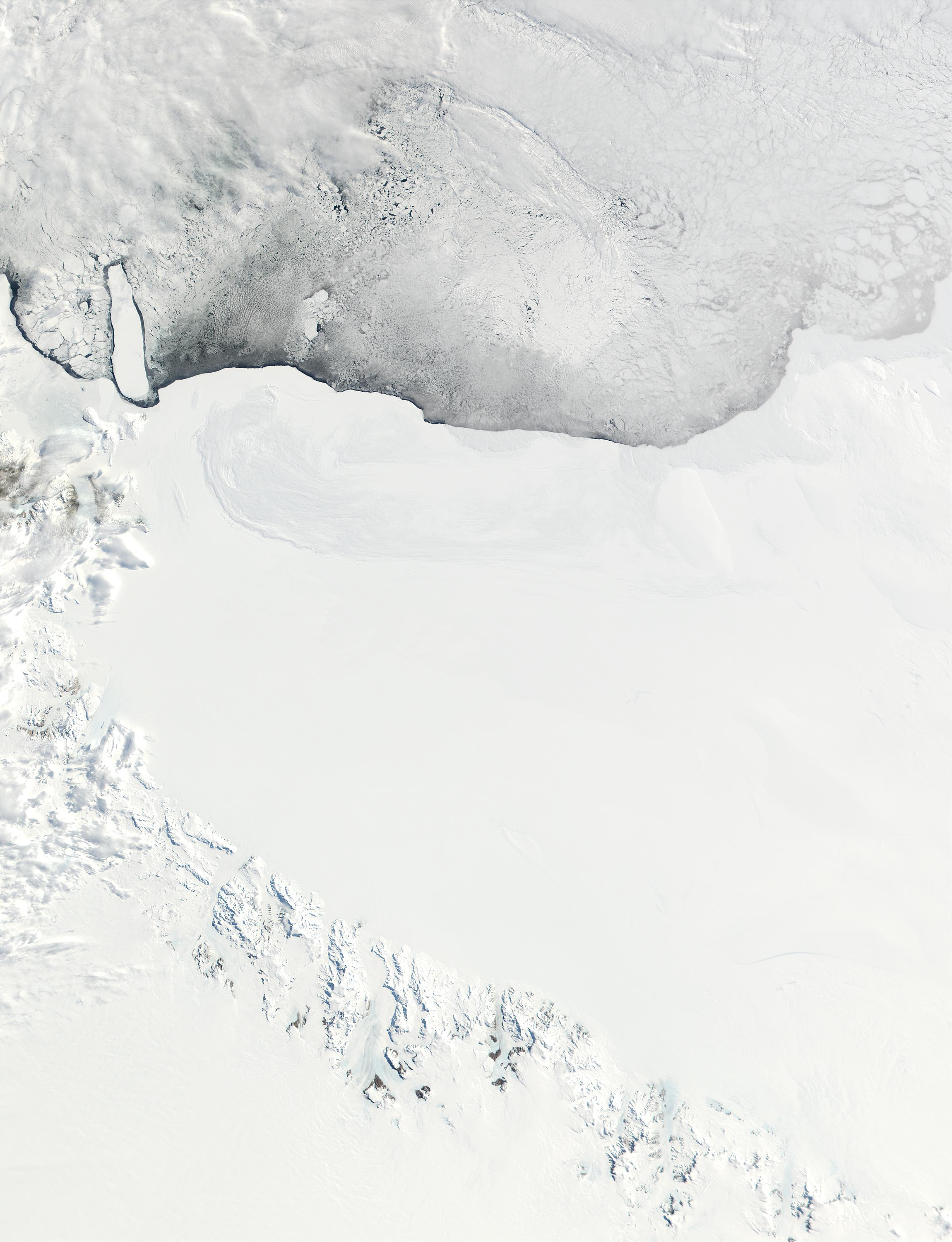 A view of the Ross Ice shelf in Antarctica from the Moderate Resolution Imaging Spectroradiometer (MODIS). Queen Alexandra range in the bottom-left